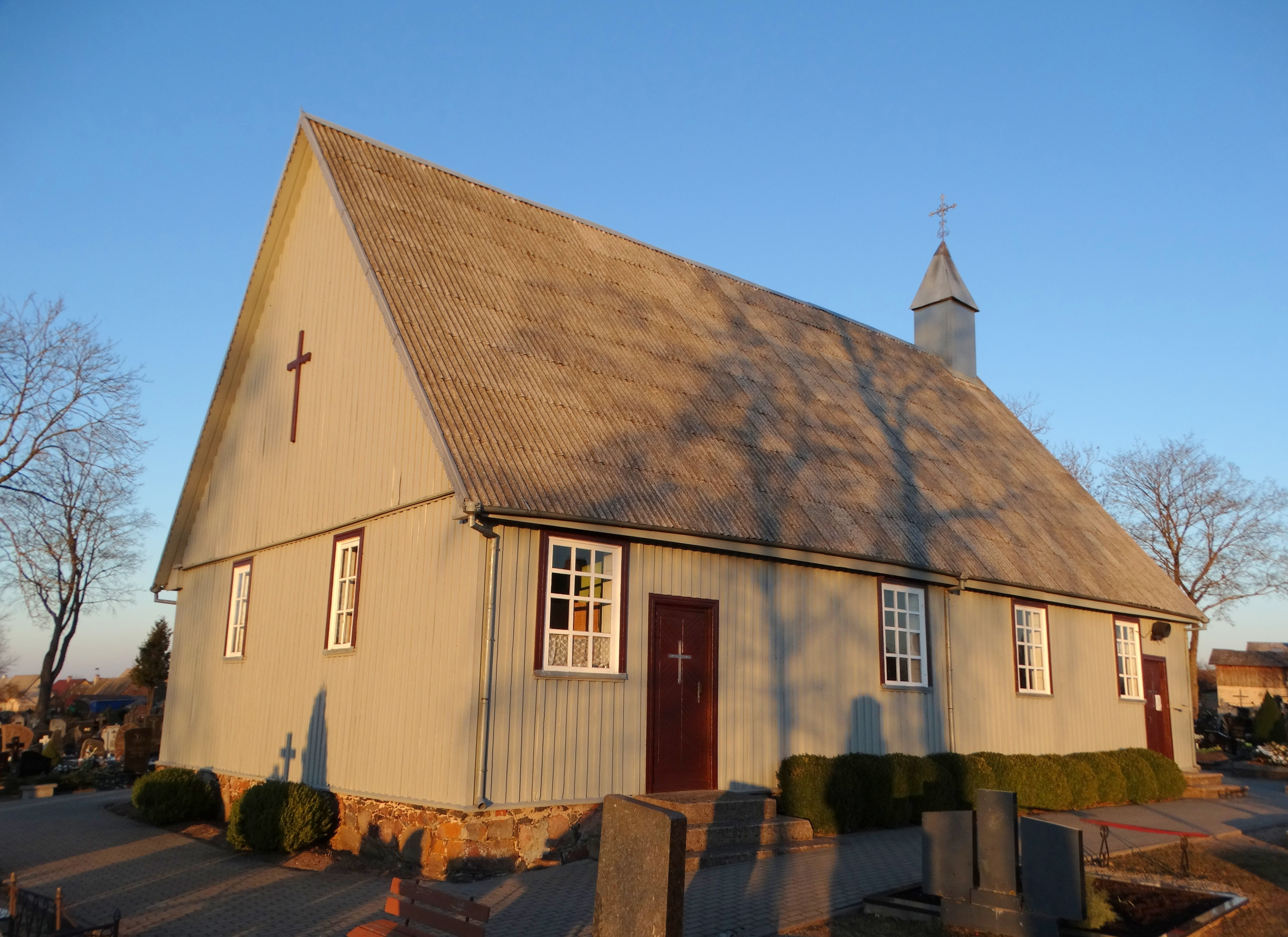 Roman Catholic Church of Jesus Crucified, Micaičiai, Šiauliai district, Lithuania